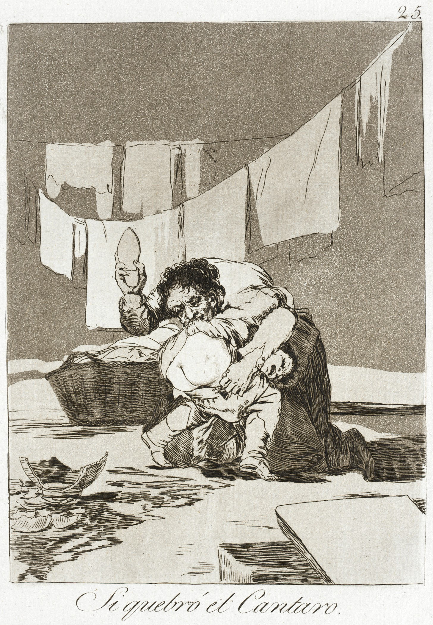 Spain, 1799 Alternate Title: Si quebró el cantaro Portfolio: Los Caprichos, plate 25 Prints; etchings Etching, aquatint and drypoint Paul Rodman Mabury Trust Fund (63.11.25) Prints and Drawings